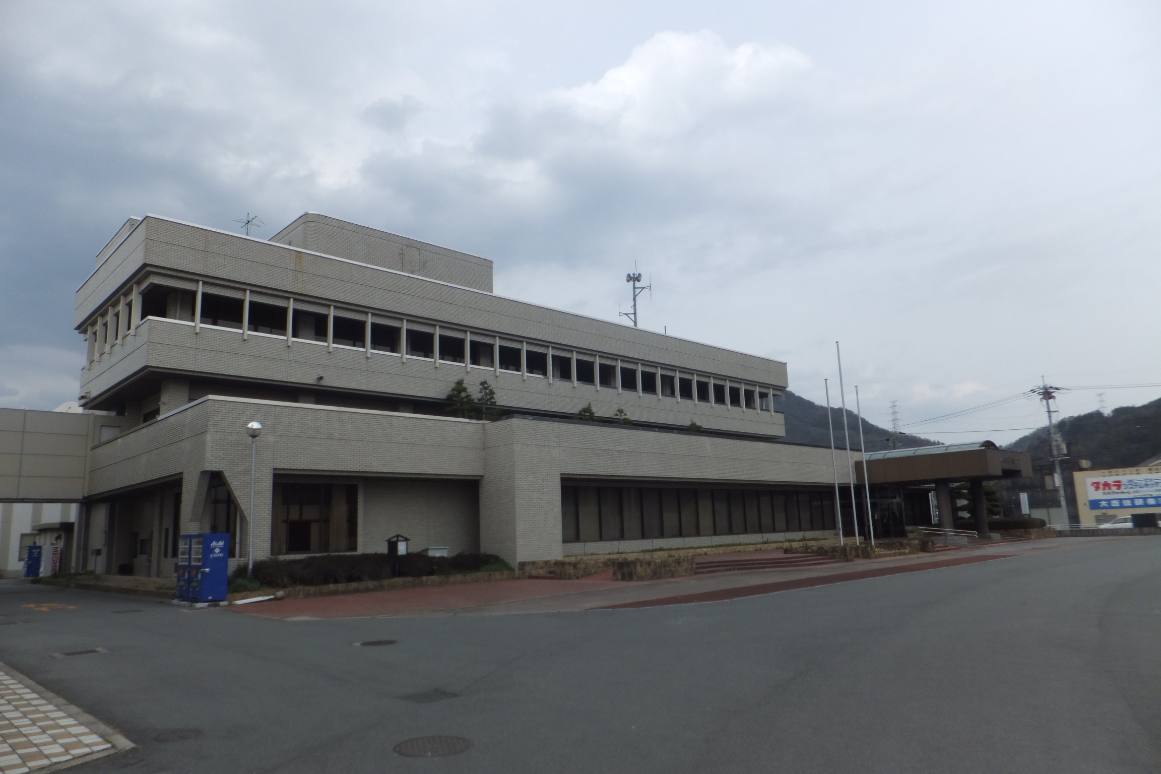 Himejicity hall Yumesaki